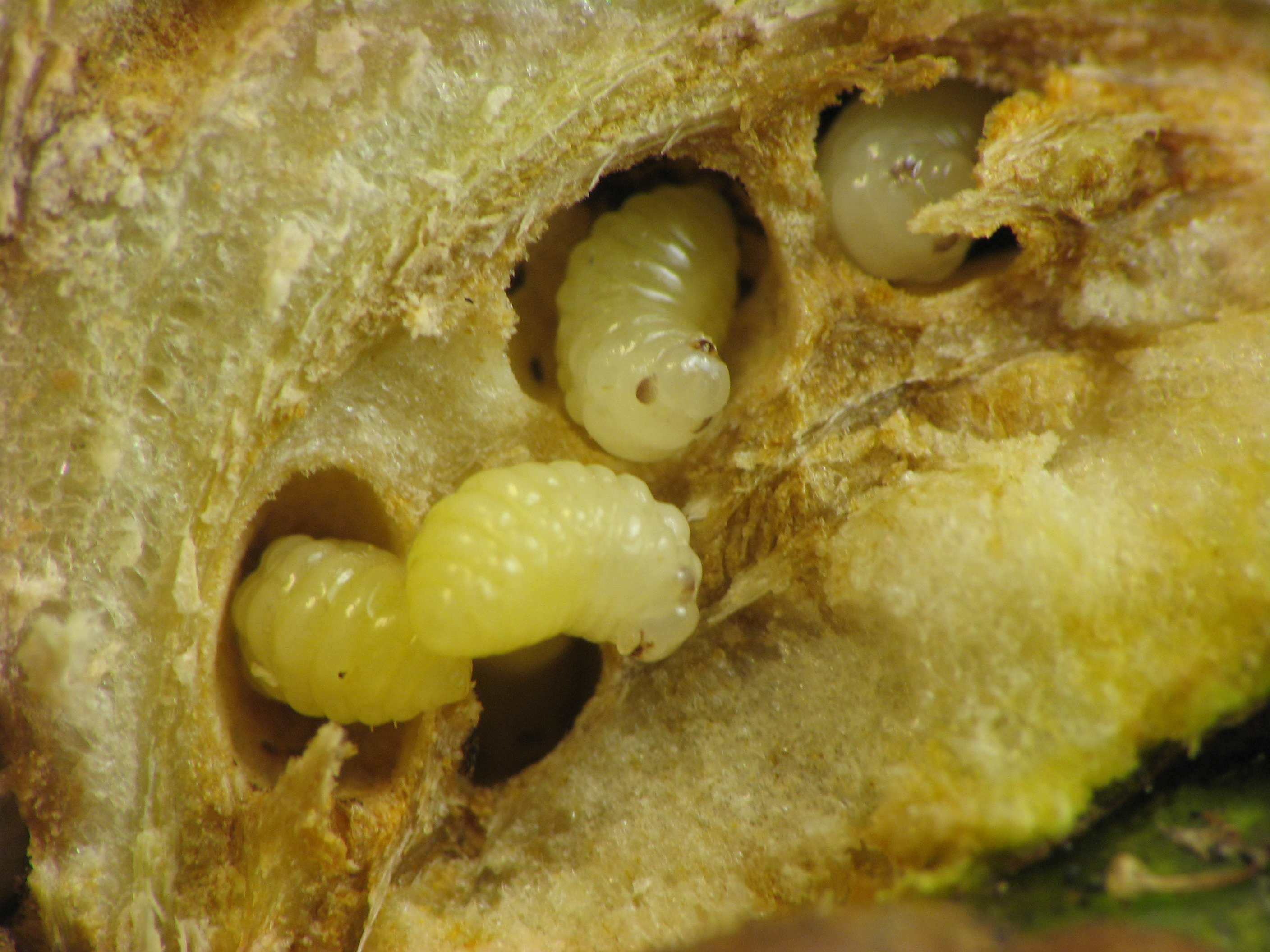 Cynipid wasp, Diastrophus nebulosus, larvae in raspberry gall. Size: 3 mm. Horsham trail. Horsham, Montgomery County, Pennsylvania, USA.